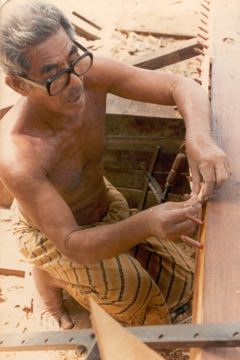 Che Ali bin Ngah applying the caulking bark during the building of the Naga Pelangi, 1981